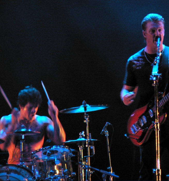 Joey Castillo and Josh Homme of Queens of the Stone Age performing at the Southside Festival in Landkreis Tuttlingen, Baden-Wurttemberg, Germany, June 24, 2007